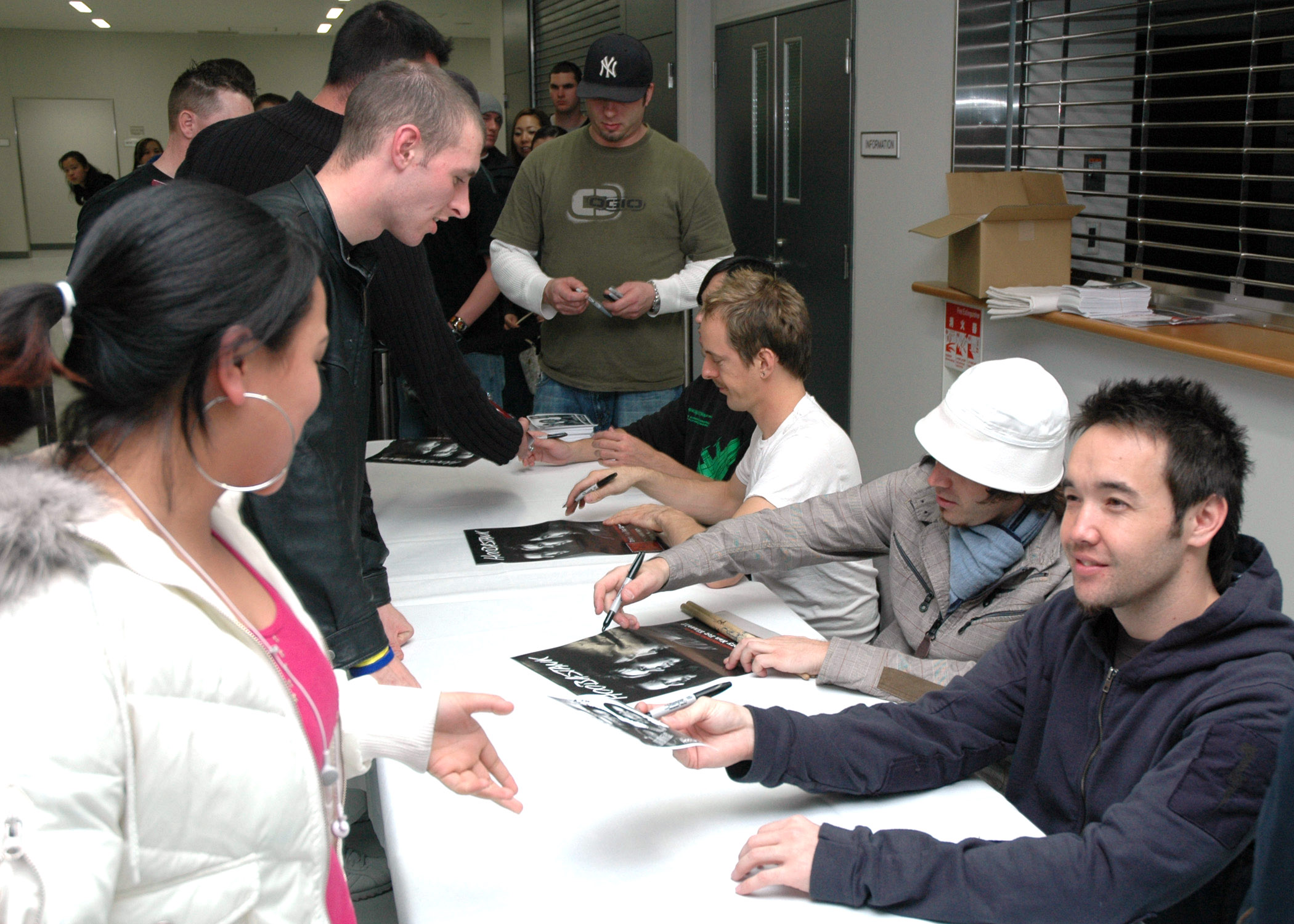 Sasebo, Japan (Jan. 23, 2007) - Members of the band 'Hoobastank' sign autographs for fans after their concert at Fleet Activities Sasebo (CFAS). The show, sponsored by Morale, Welfare and Recreation (MWR) was the band's first time to play for a Navy audience. U.S. Navy photo by Mass Communication Specialist 3rd Class Marvin E. Thompson Jr (RELEASED)